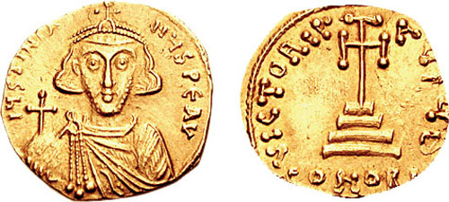 Justinian II. First Reign, 685-695 AD. AV Solidus (4.14 gm, 7h). Constantinople mint. Struck 685-687 AD. Crowned facing bust, holding globus cruciger; beard indicated by row of dots Cross potent on three steps; B/CONOBA. DOC I -; MIB III 5; SB 1245A. EF, slightly clipped. ($500) From the Garth R. Drewry Collection. Ex William Herbert Hunt Collection (Sotheby's, 21 June 1991), lot 487 (part of). N.B.: An officina B has heretofore not been recorded for this variety of Justinian II solidus.